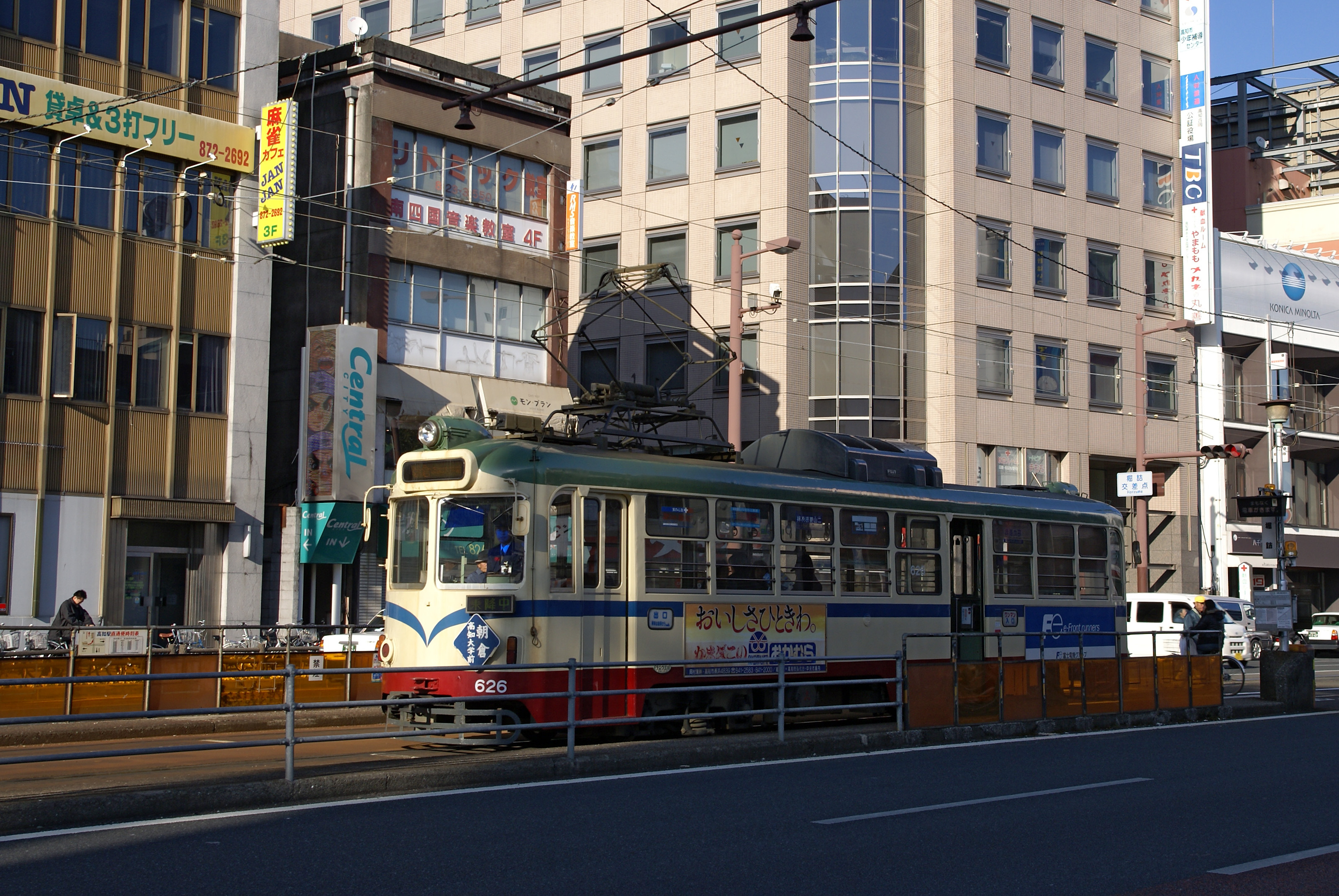 Horidume Station in Kochi, Kochi prefecture, Japan